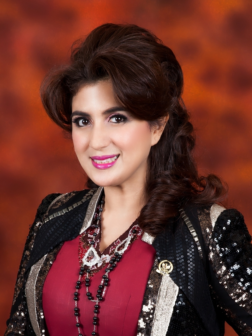 Portrait of Hana Hasanah Shahab (after marriage to Fadel Muhammad later became Hana Hasanah Fadel Muhammad) as Regional Representative Council of the Republic of Indonesia period 2014-2019